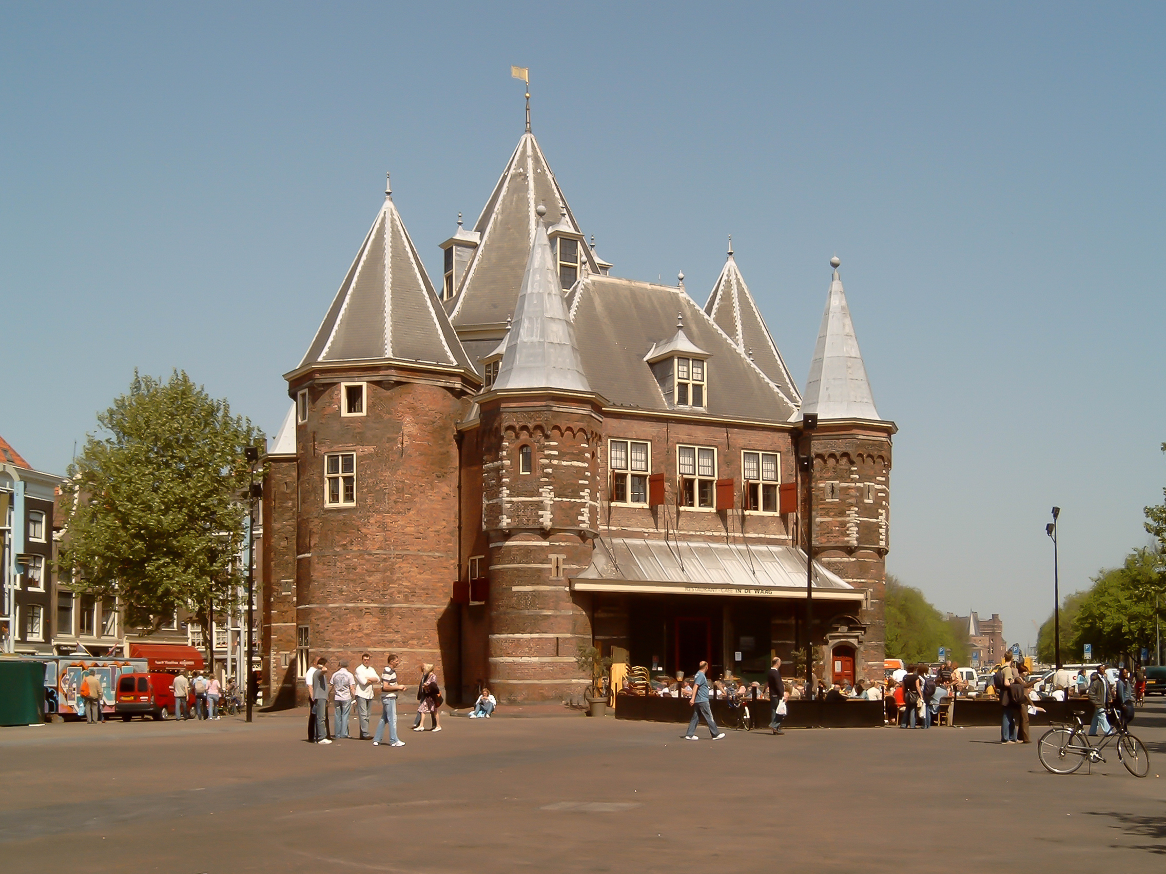 Amsterdam, de Oude Waag